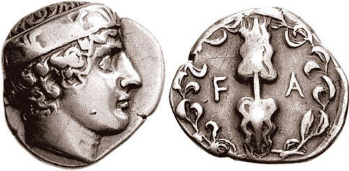 Stater, 392 BC, Olympia. 97th Olympiad